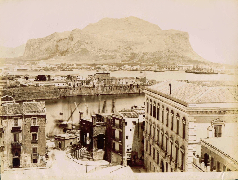 Giuseppe Incorpora (1834-1914), "Palermo. Harbour and Mount Pellegrino".